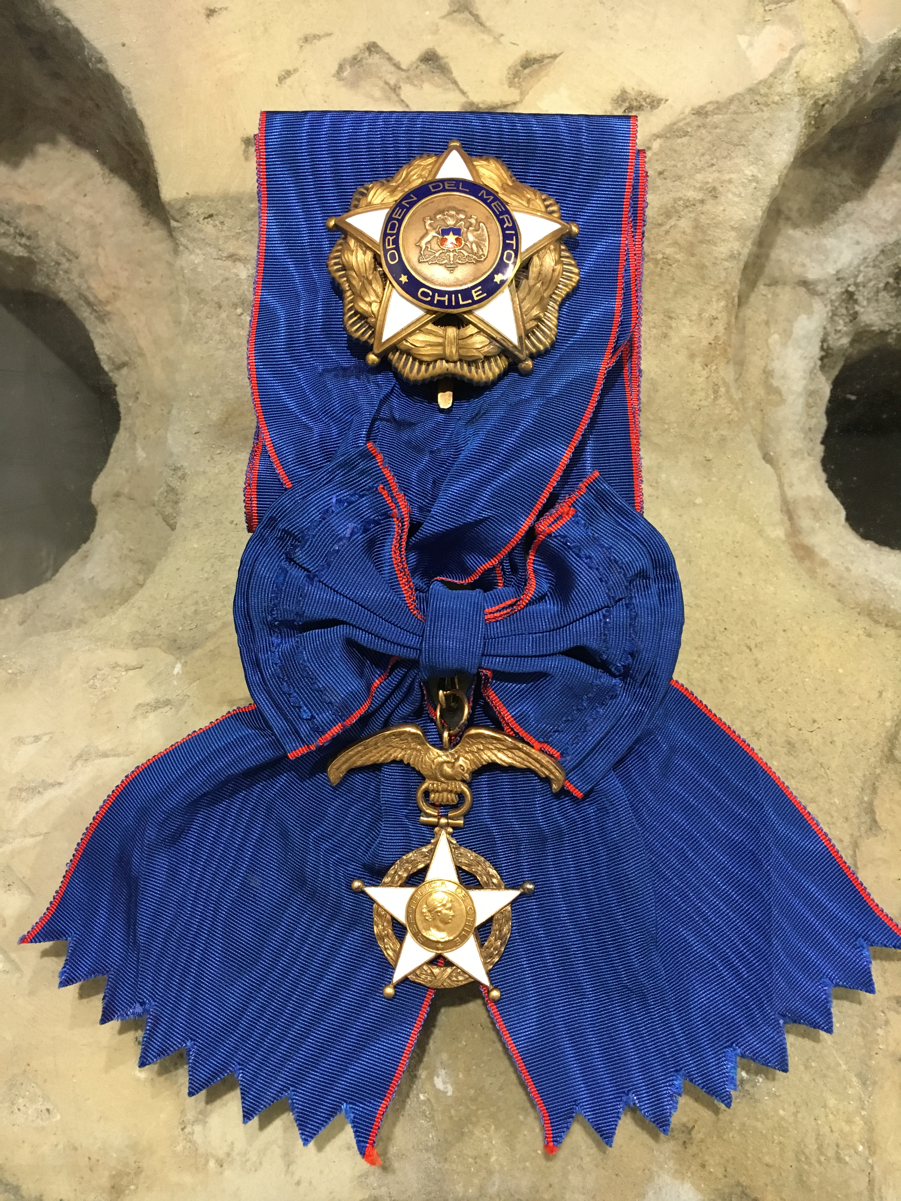 Grand Cross of the Order of Merit of the Republic of Chile. Private collection.